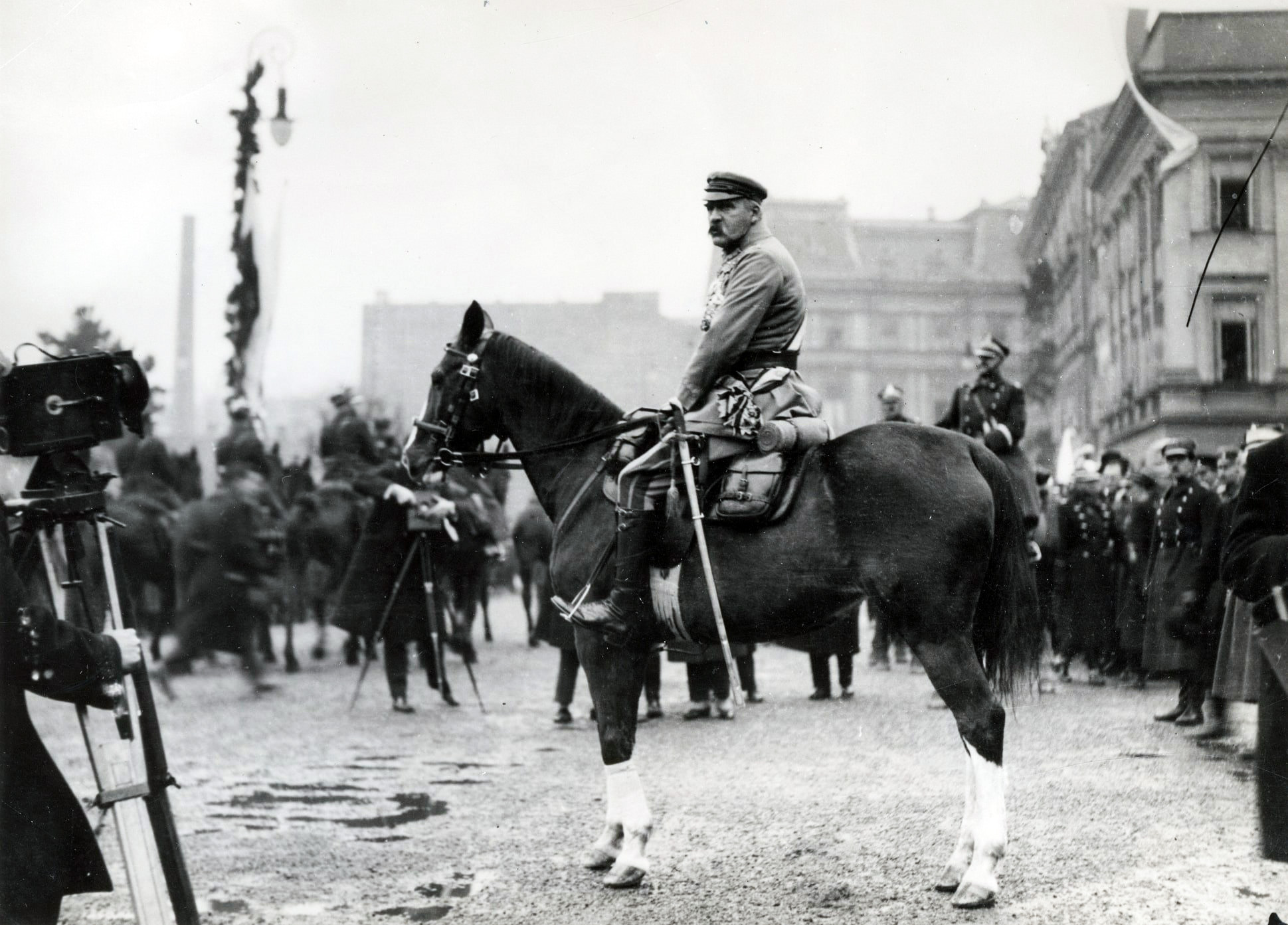 Józef Piłsudski review the troops of Polish Army, Warsaw 11.11.1926, Saski Square